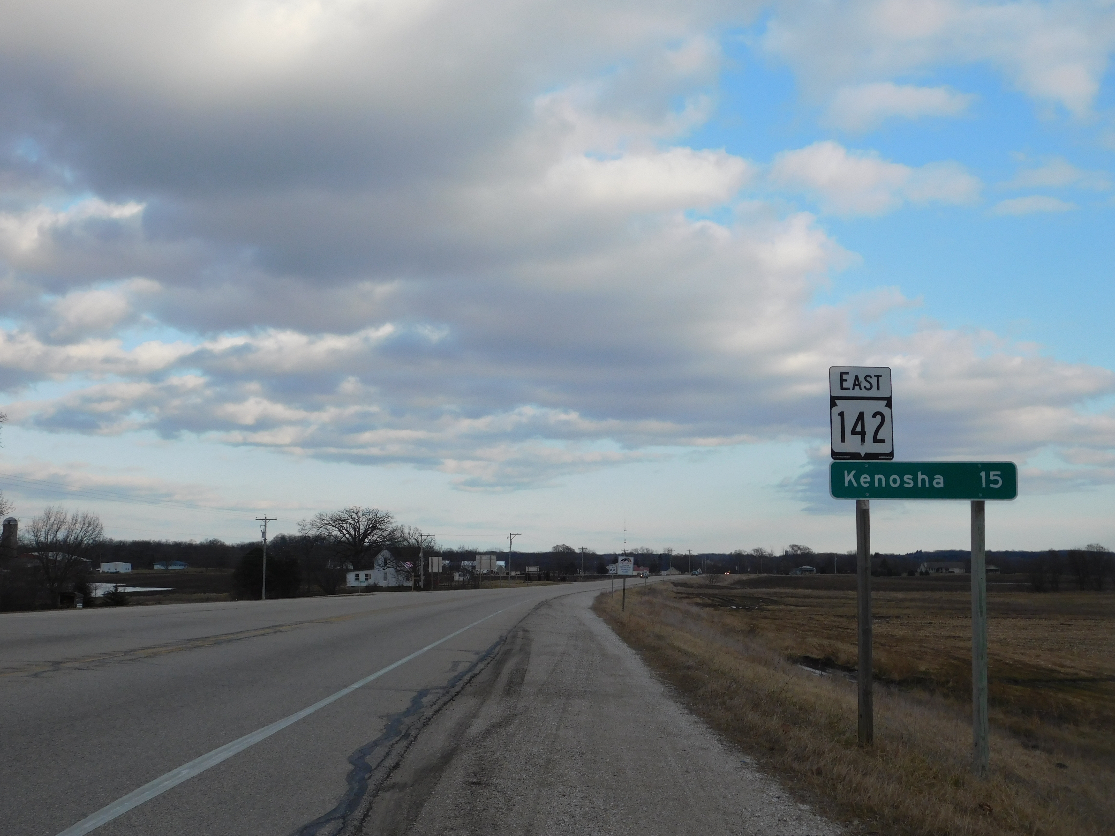 Wisconsin Highway 142 eastbound from Wisconsin Highway 175.